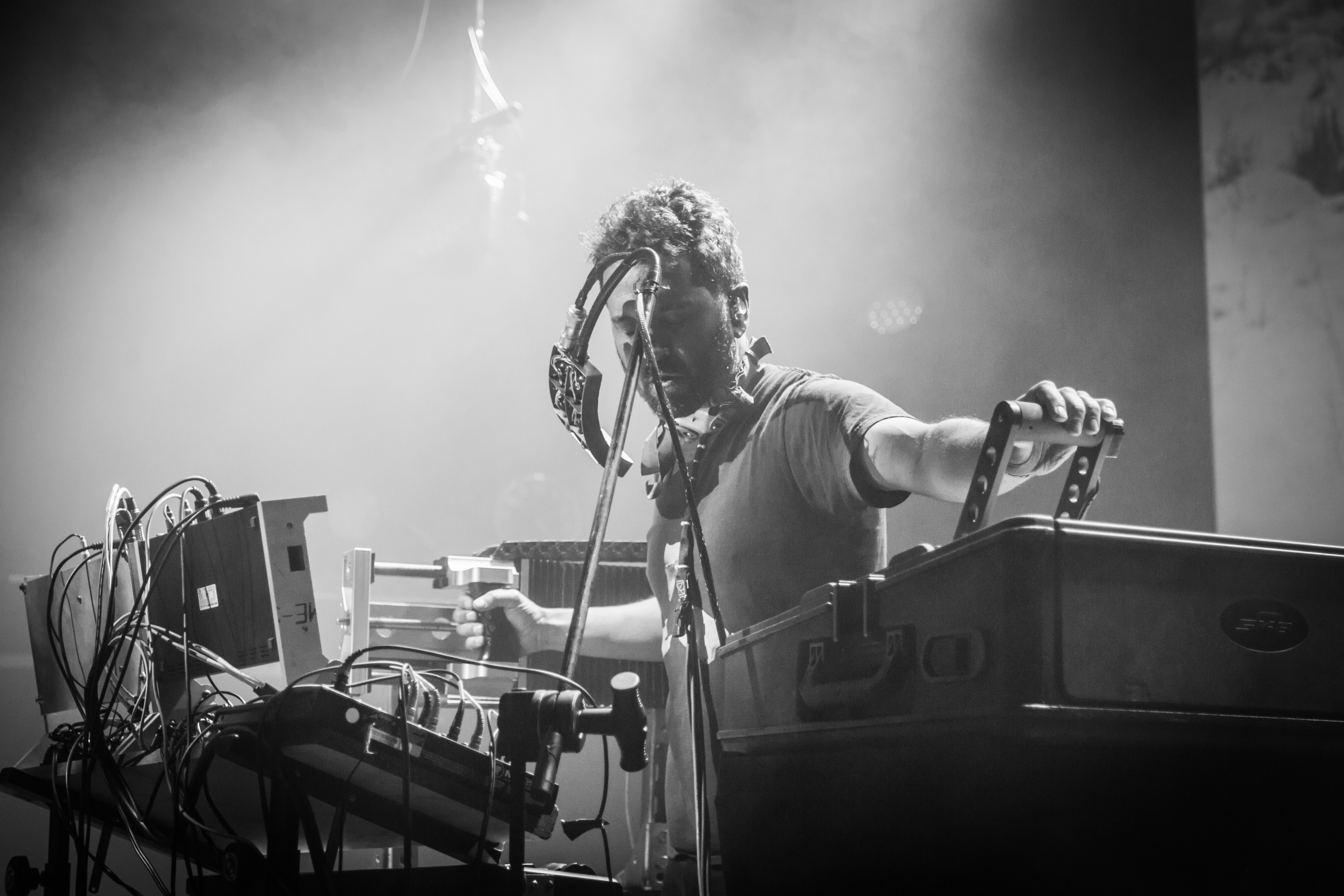 Author & Punisher live at Roadburn Festival, Tilburg, April 2017